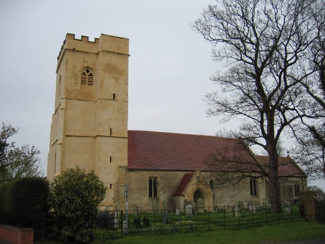 St John the Baptist parish church, Strensham, Worcestershire, seen from the south